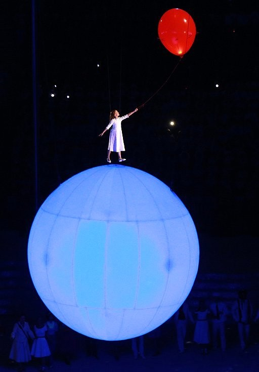 At the Opening Ceremony for the XXII Olympic Winter Games.